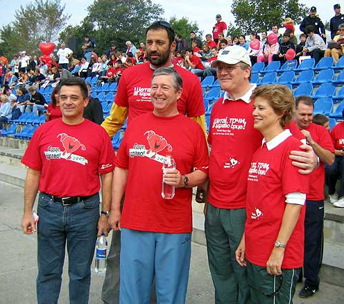 Photo of an event for World Heart Day in Belgrade on September 25, 2005. Front row, left to right: Dr. Tomica Milosavljevic, Serbia's Minister of Health; Serbia's Crown Prince Aleksandar Karadjordjevic; America's Ambassador to Serbia Michael C. Polt; Mrs. Polt. Back row: Basketball player Vlade Divac.